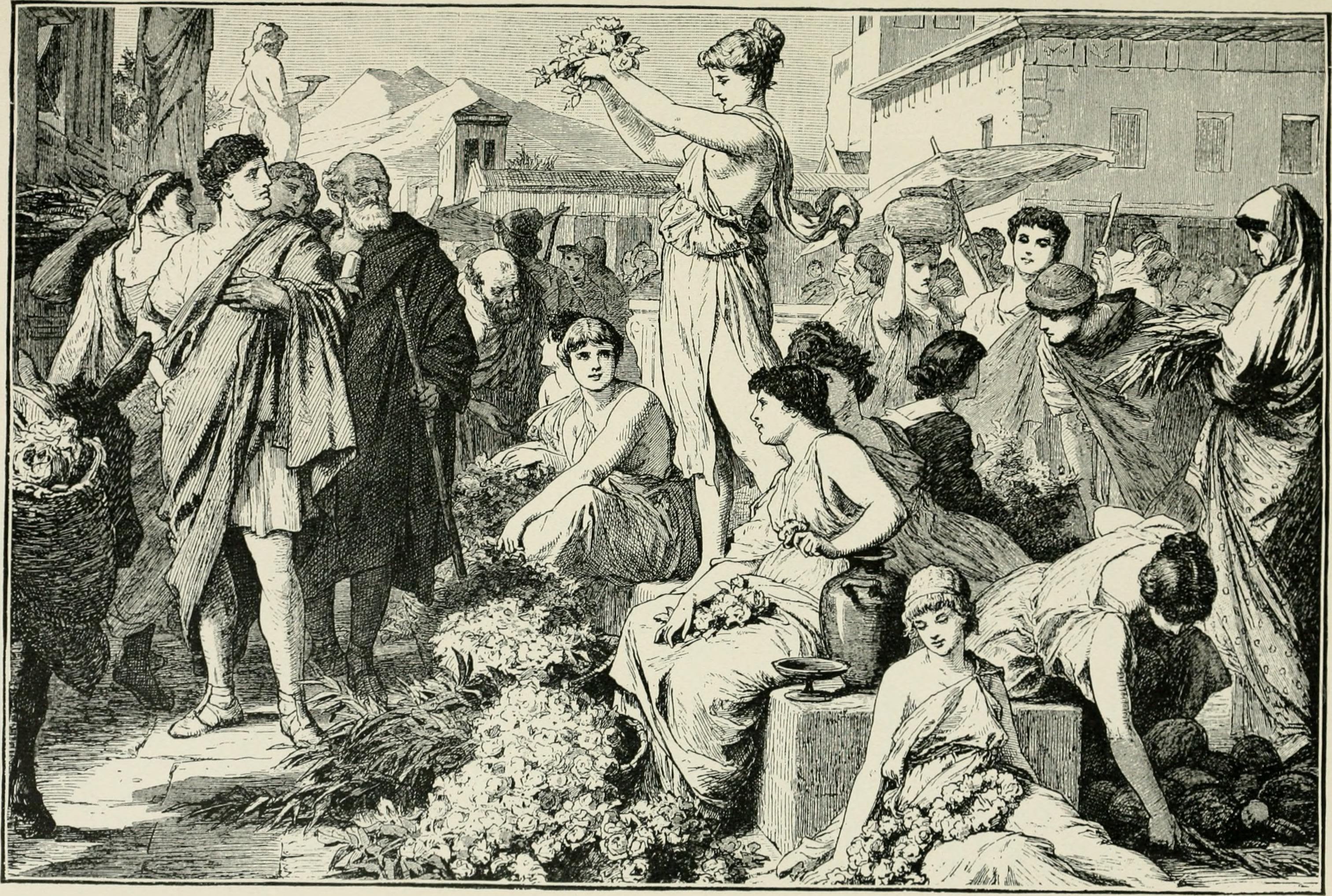 Cimon courting the favor of the athenians Title: The story of the greatest nations, from the dawn of history to the twentieth century : a comprehensive history, founded upon the leading authorities, including a complete chronology of the world, and a pronouncing vocabulary of each nation Year: 1900 (1900s) Authors: Ellis, Edward Sylvester, 1840-1916 Horne, Charles F. (Charles Francis), 1870-1942 Subjects: World history Publisher: New York : F.R. Niglutsch Text Appearing Before Image: ' Text Appearing After Image: Greece—Causes of the Peloponnesian War 21 g was refused. Then they turned to the Corinthians, who organized a force toassist thcni. This highly angered the Corcyraeans, who proceeded to upset theEpidamnian government, and blockaded the town and its Corinthian garrison.Then the Corinthians fitted out a stronger fleet, aided by their allies, but theywere decisively defeated by the Corcyraeans off Cape Actium, and on the sameday Epidamnus surrendered to their blockading squadron. The Corinthians were humiliated beyond endurance. They devoted twoyears to preparing to wipe out the disgrace and built so formidable a navy thatthe alarmed Corcyraeans applied to Athens for help. The Corinthians also sentan embassy thither to protest. After much hesitation the Athenians concludeda merely defensive alliance with Corcyra. In other words, it was agreed tohelp the Corcyraeans in case their country was actually invaded, but to go nofurther. In the naval battle which soon followed, the victory was